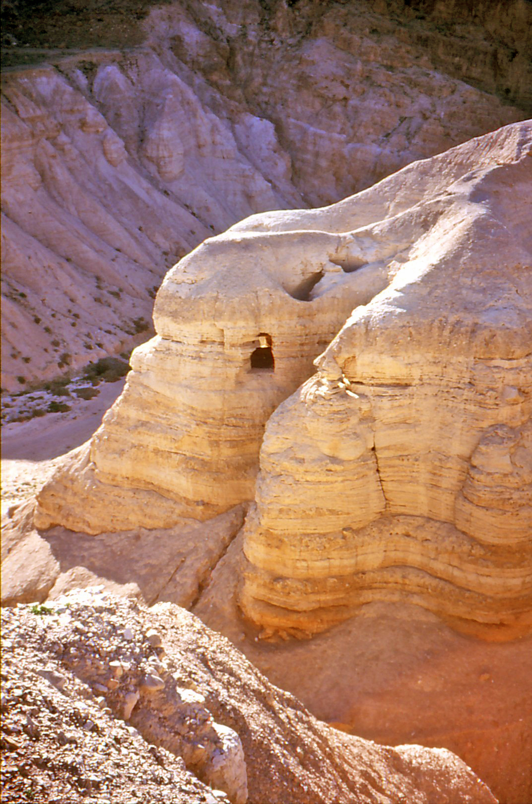 Caves at Qumran in the West Bank, Middle East. In this area the Dead Sea Scrolls were found.